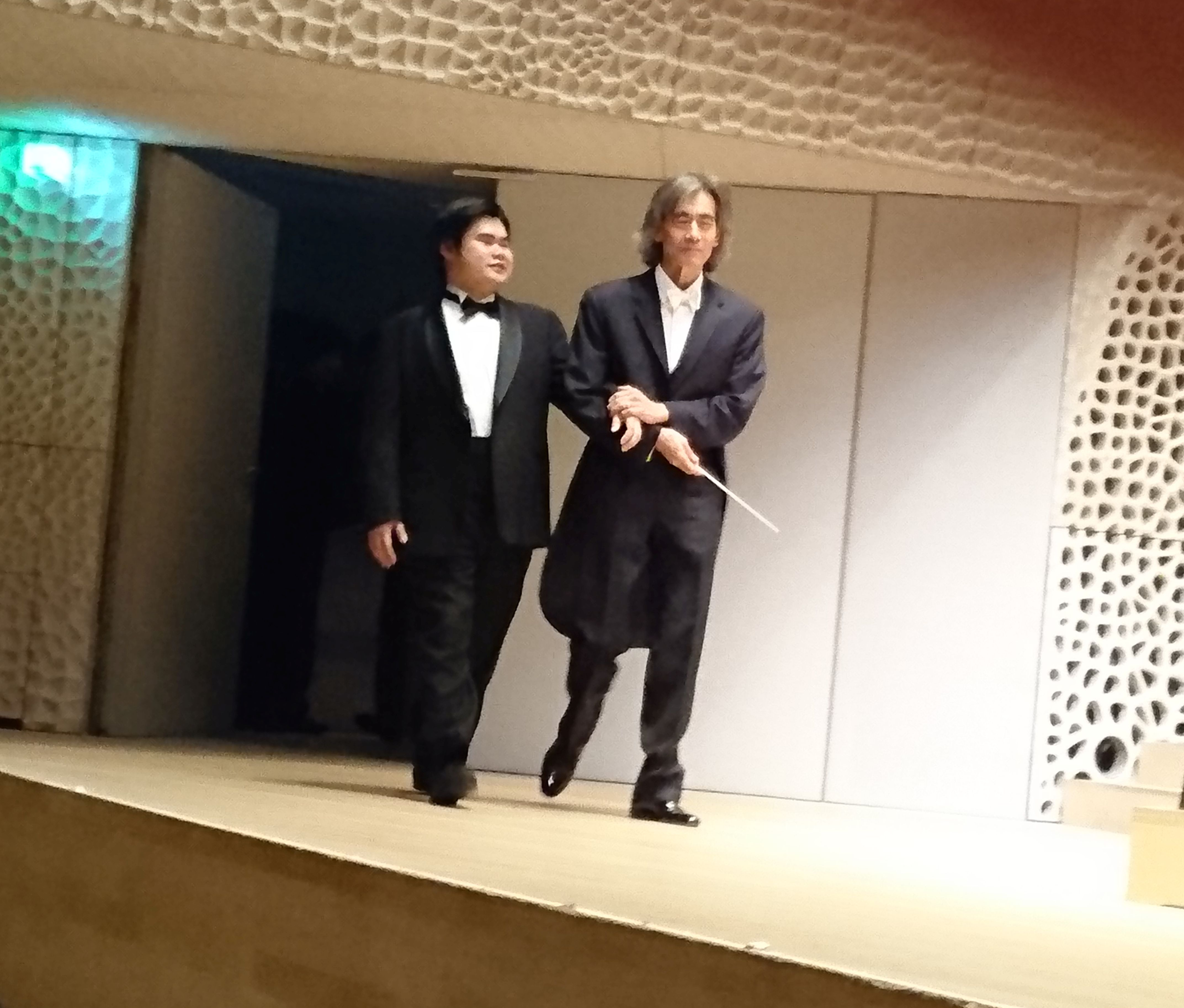 Nobuyuki Tsujii debuts at the Elbphilharmonie in Hamburg, Germany on October 27 2019 with a performance of Liszt's Piano Concerto no. 1; Kent Nagano conducts the Hamburg Philharmonic State Orchestra.